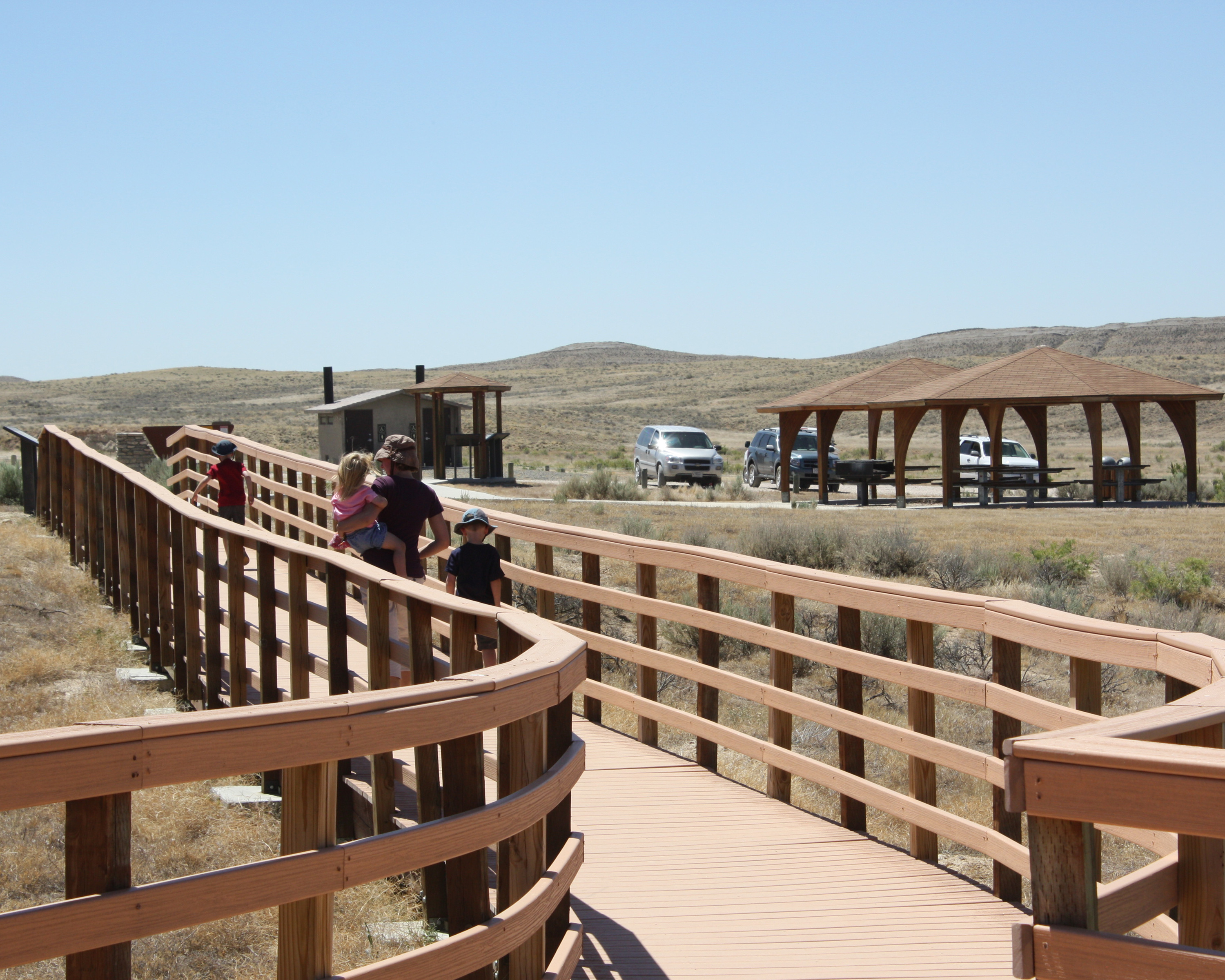 The Red Gulch Dinosaur Tracksite — an interpretive area in the Red Gulch/Alkali National Back Country Byway, in Big Horn County, Wyoming. Protected by the BLM−Bureau of Land Management in Wyoming. From the My Public Lands Magazine, Summer 2014: "Walking with Giants" We follow 167-million-year-old dinosaur tracks in the ancient ocean shores of…Wyoming? You can imagine yourself walking along an ocean shoreline 167 million years ago with dozens of other dinosaurs, looking to pick up a bite of lunch from what washed up on the last high tide. The ground is soft and your feet sink down in the thick ooze, leaving a clear footprint with every step you take. The discovery of rare fossil footprints on public lands near the Red Gulch/Alkali National Back Country Byway close to Shell, Wyoming, could alter current views about the Sundance Formation and the paleoenvironment of the Middle Jurassic Period. Story by Sarah Beckwith, BLM Wyoming Read the story